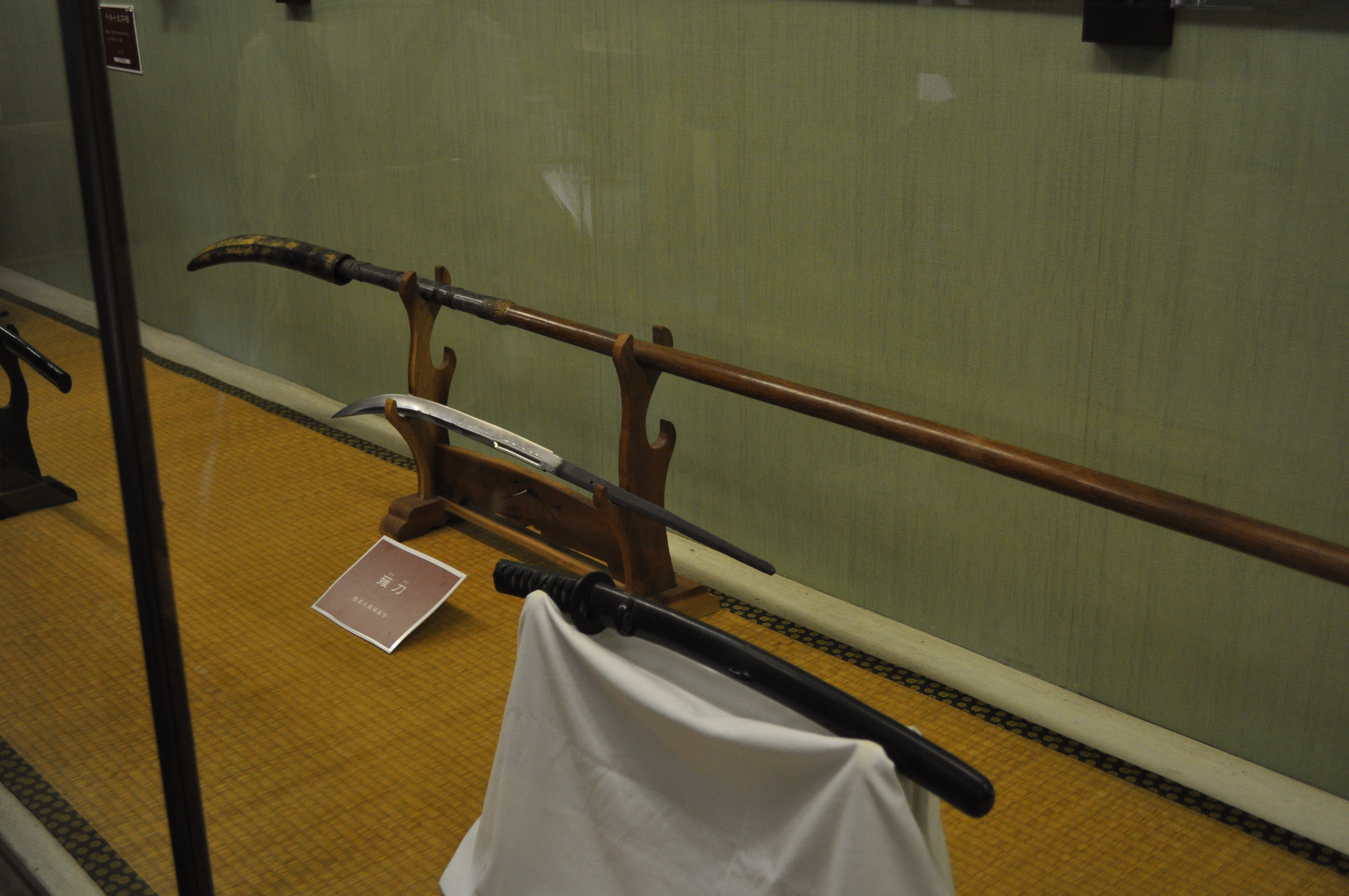 Antique Japanese (samurai) naginata and koshirae, Hirosaki Castle Japan.